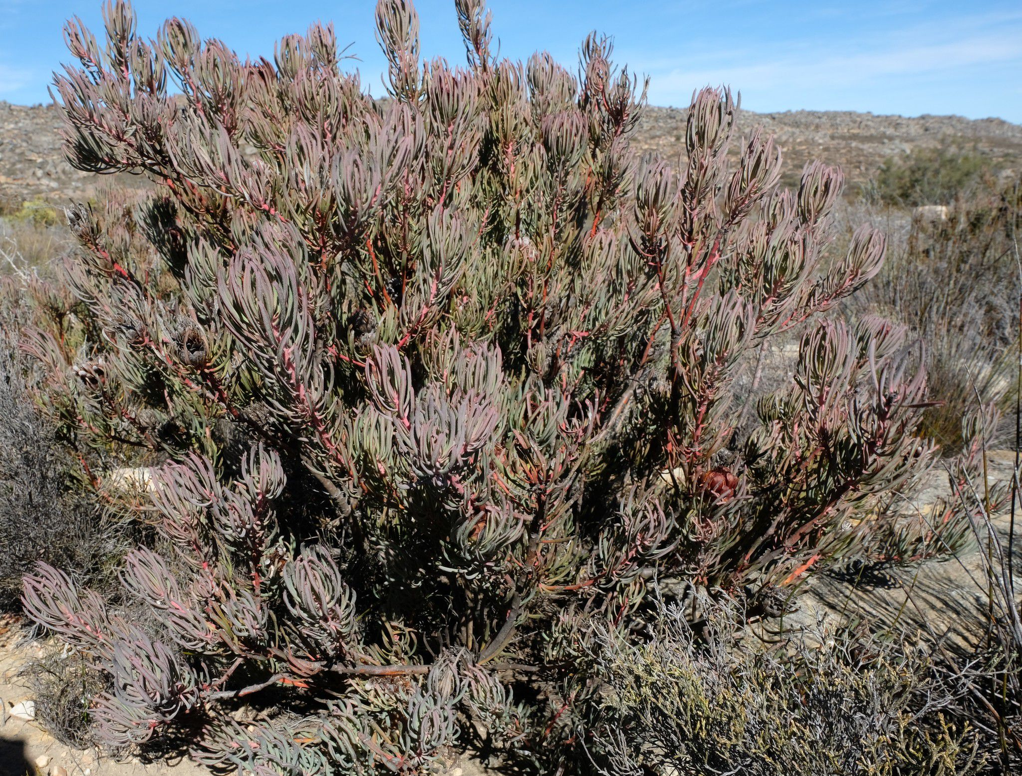 Protea canaliculata during a winter drought on 18 August 2018 at Drie Kuilen, Western Cape, RSA, by Nick Helme. Some quite dense stands in places here. Plants to 1.3m. Many dead plants due to drought.